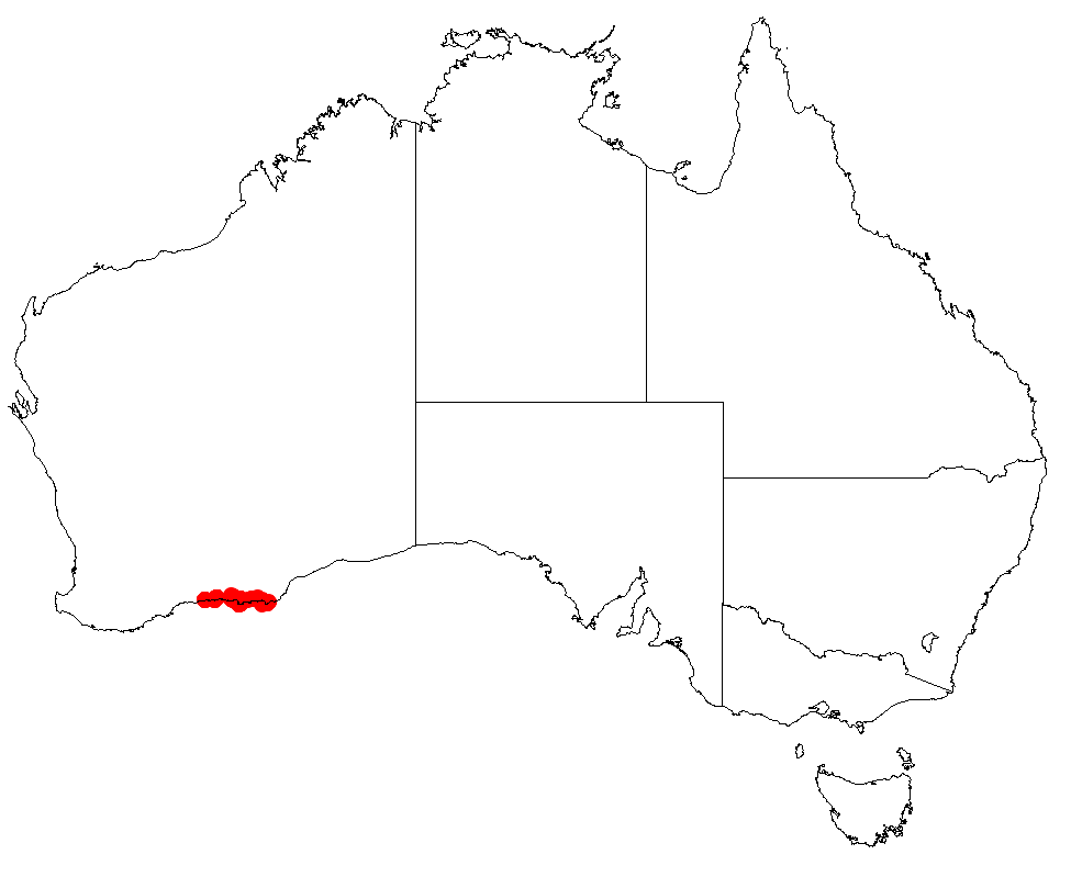 Macrozamia dyeri occurrence data downloaded from Australasian Virtual Herbarium using